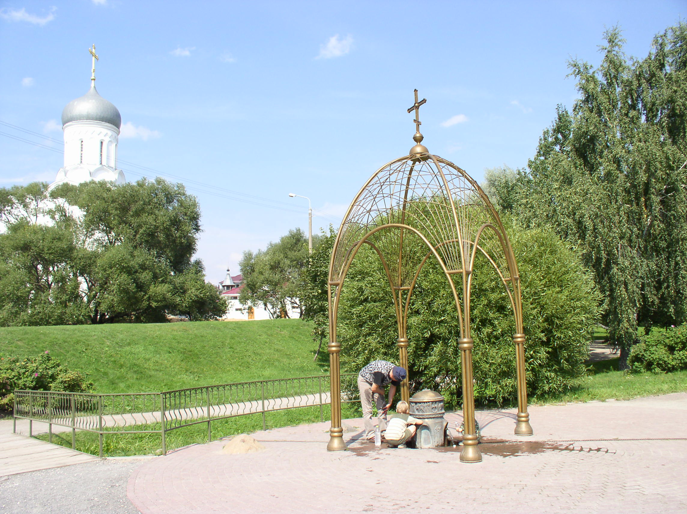 Holy spring near church of Protection of the Holy Virgin. Minsk, Belarus.